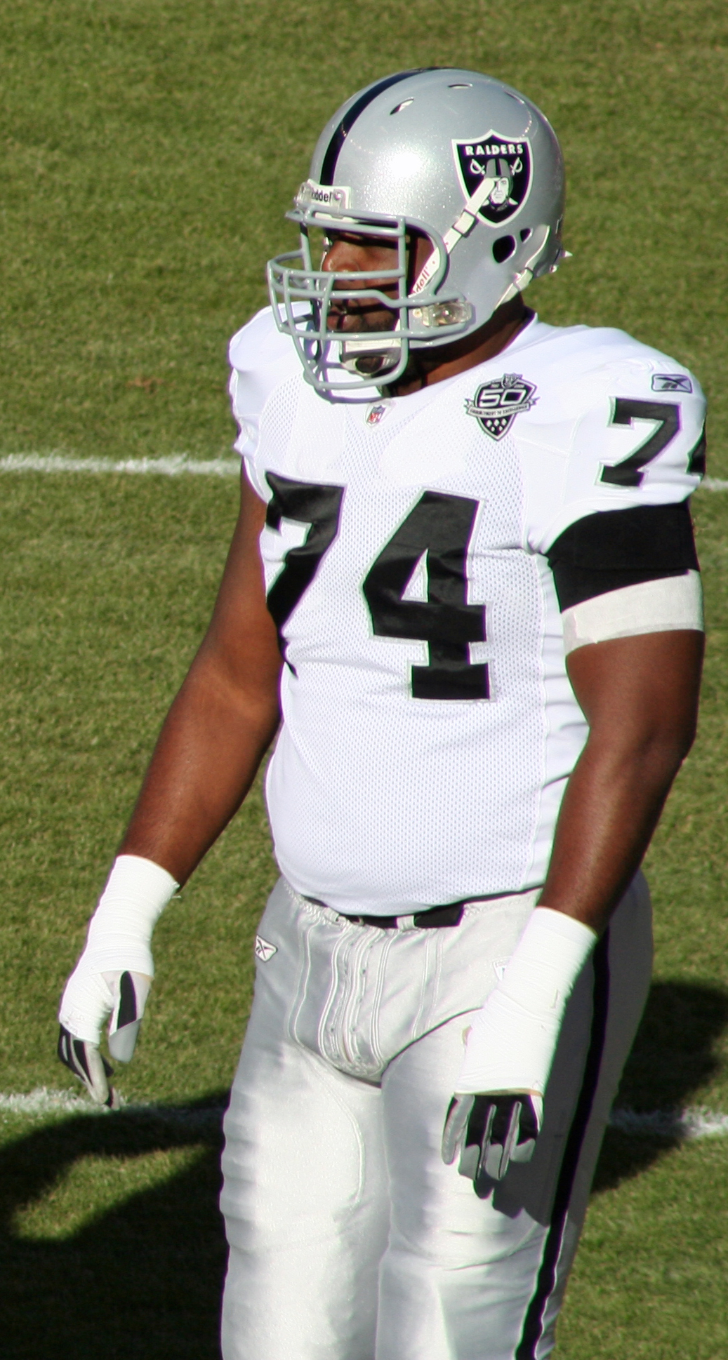 Cornell Green, a player on the Oakland Raiders American football team. He plays the offensive tackle position.